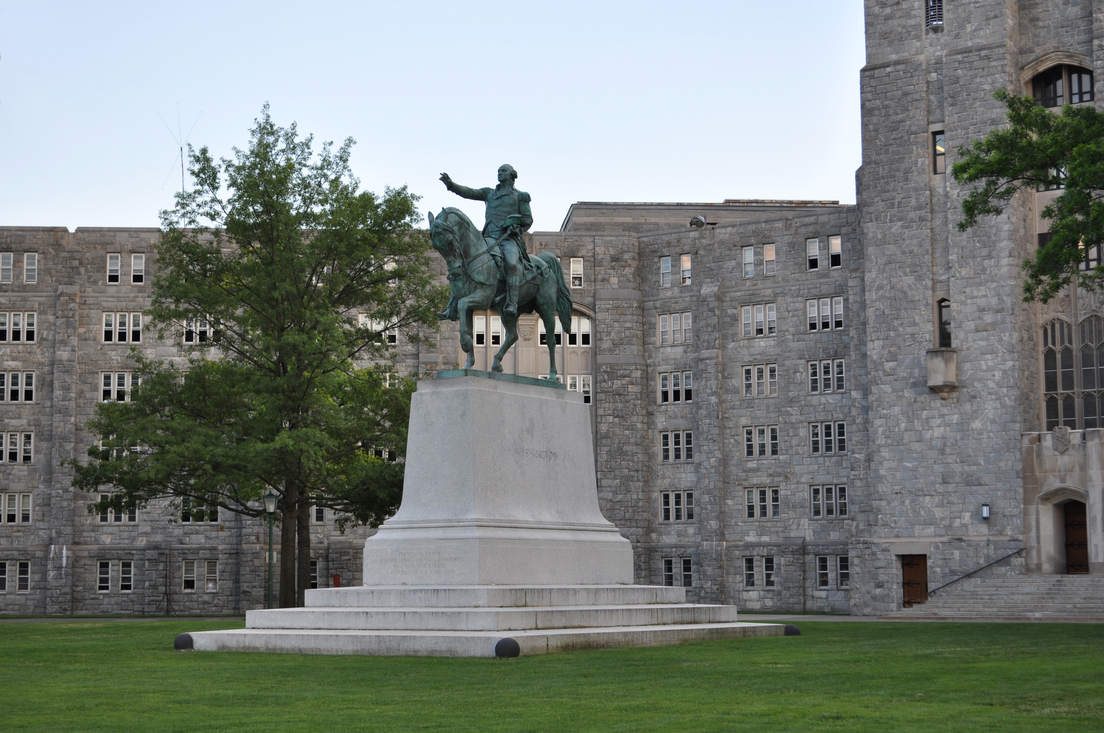 This is my image of the Washington Monument at West Point